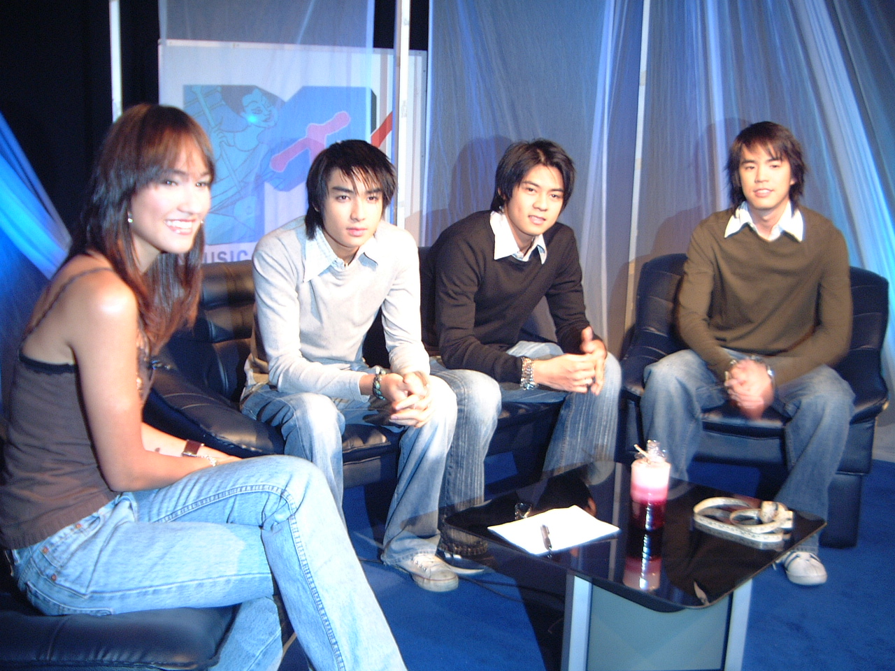 VJ Jane MTVthailand & D2B